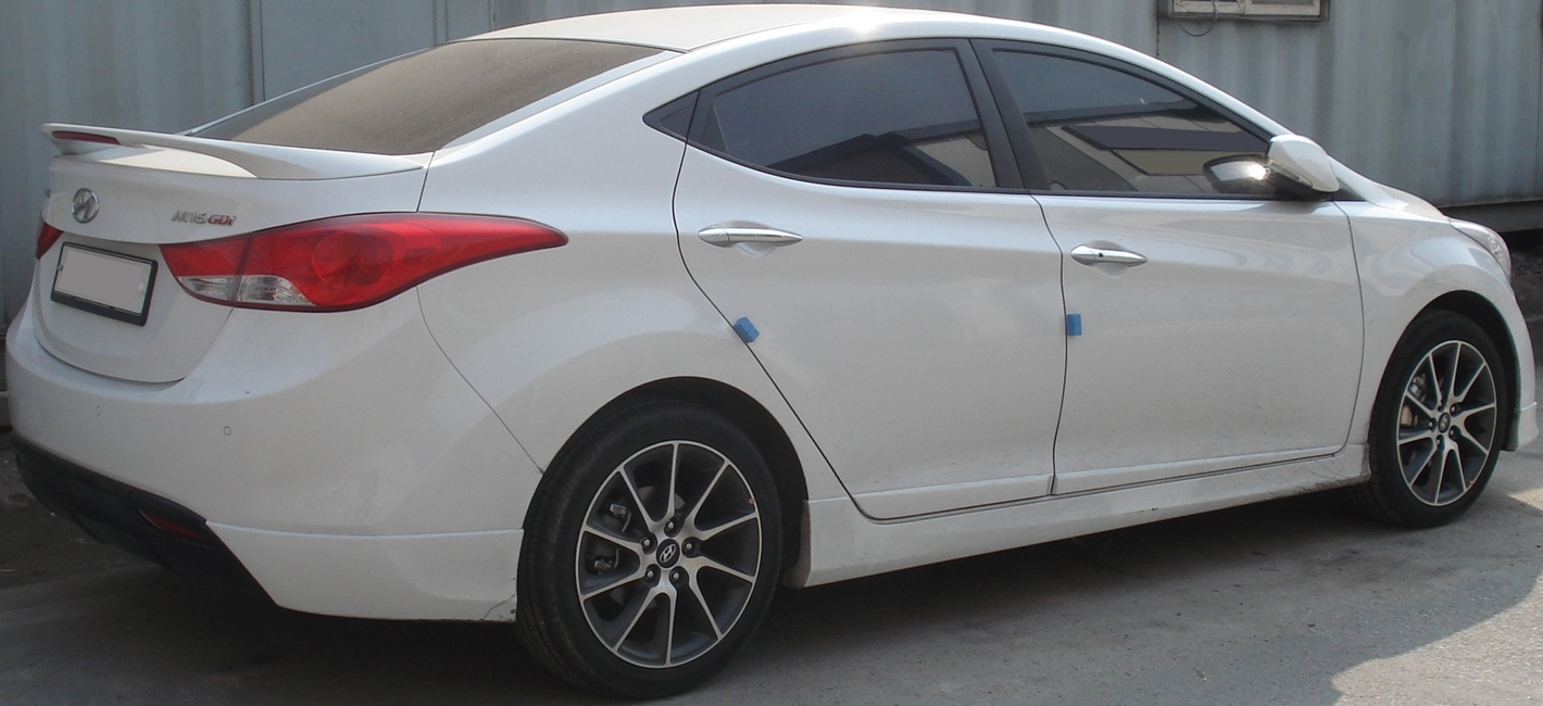 Hyundai Avante